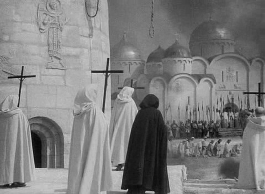 Teutonic Order monks prepare the hanging of a resistance leader in captured Pskov. Screenshot from Alexander Nevsky (released 1938)